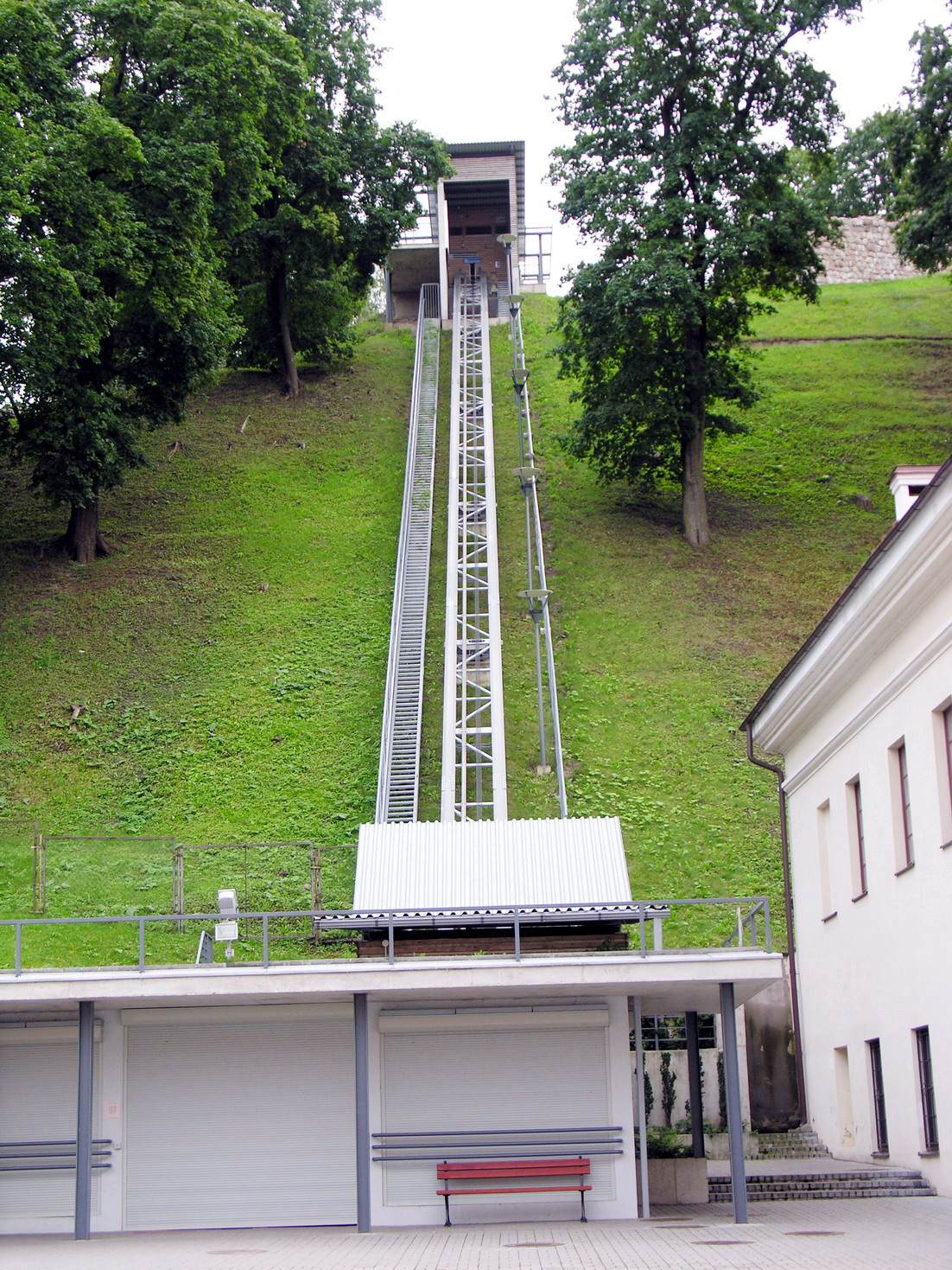 Gedimino kalno keltuvas. Lift to Gediminas Hill.